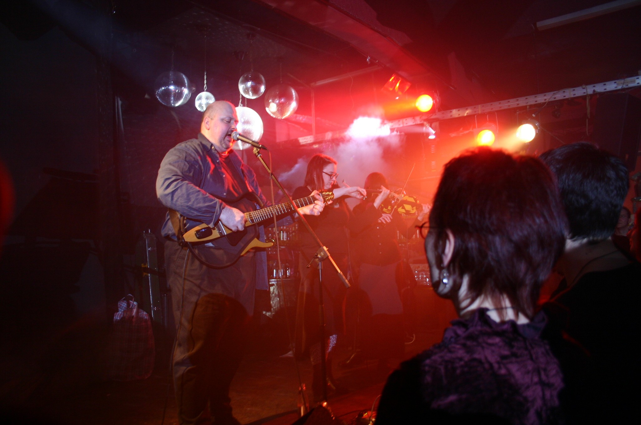 Live-Performance Of Sol Invictus